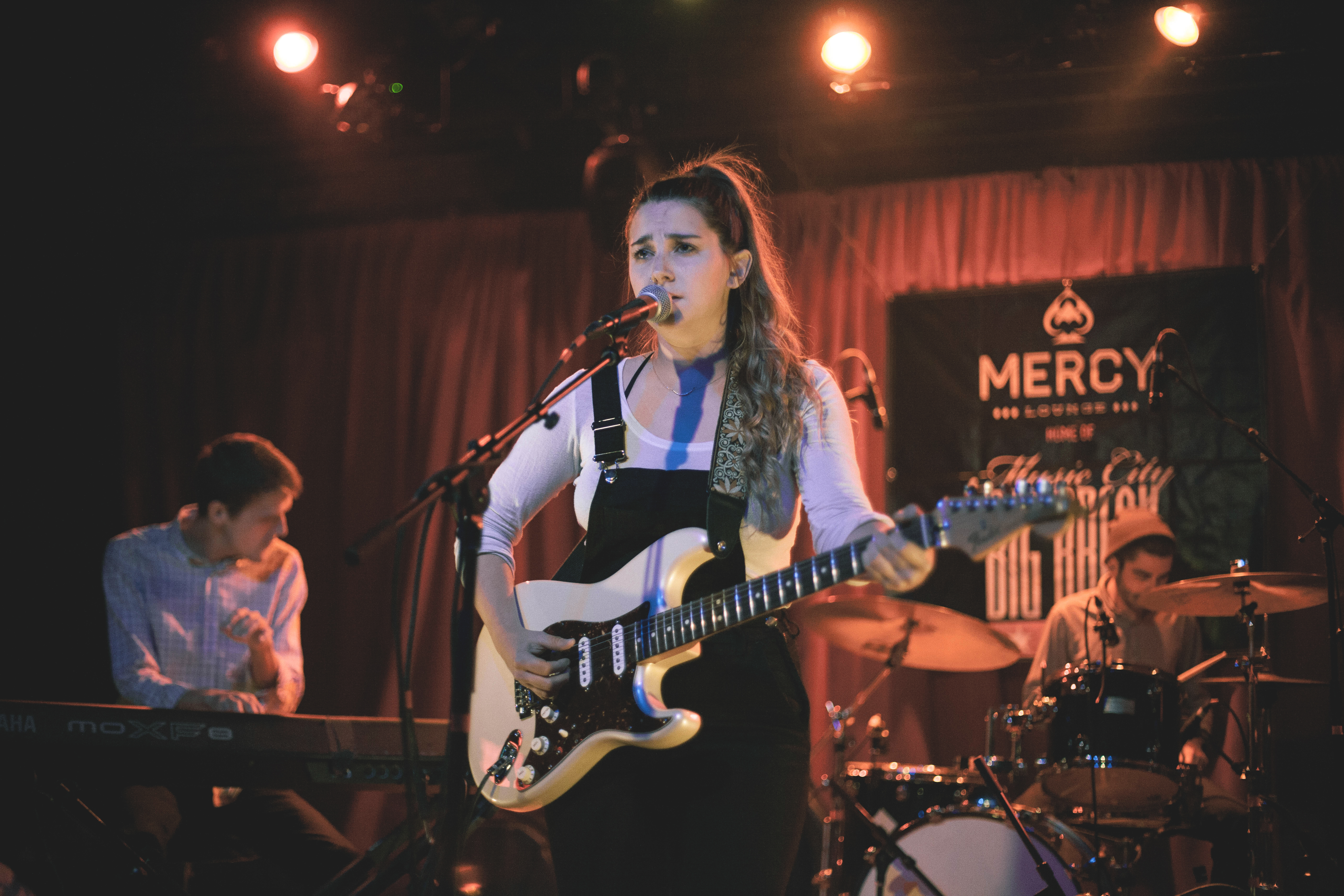 Katie Pruitt is playing a show at the Mercy Loune